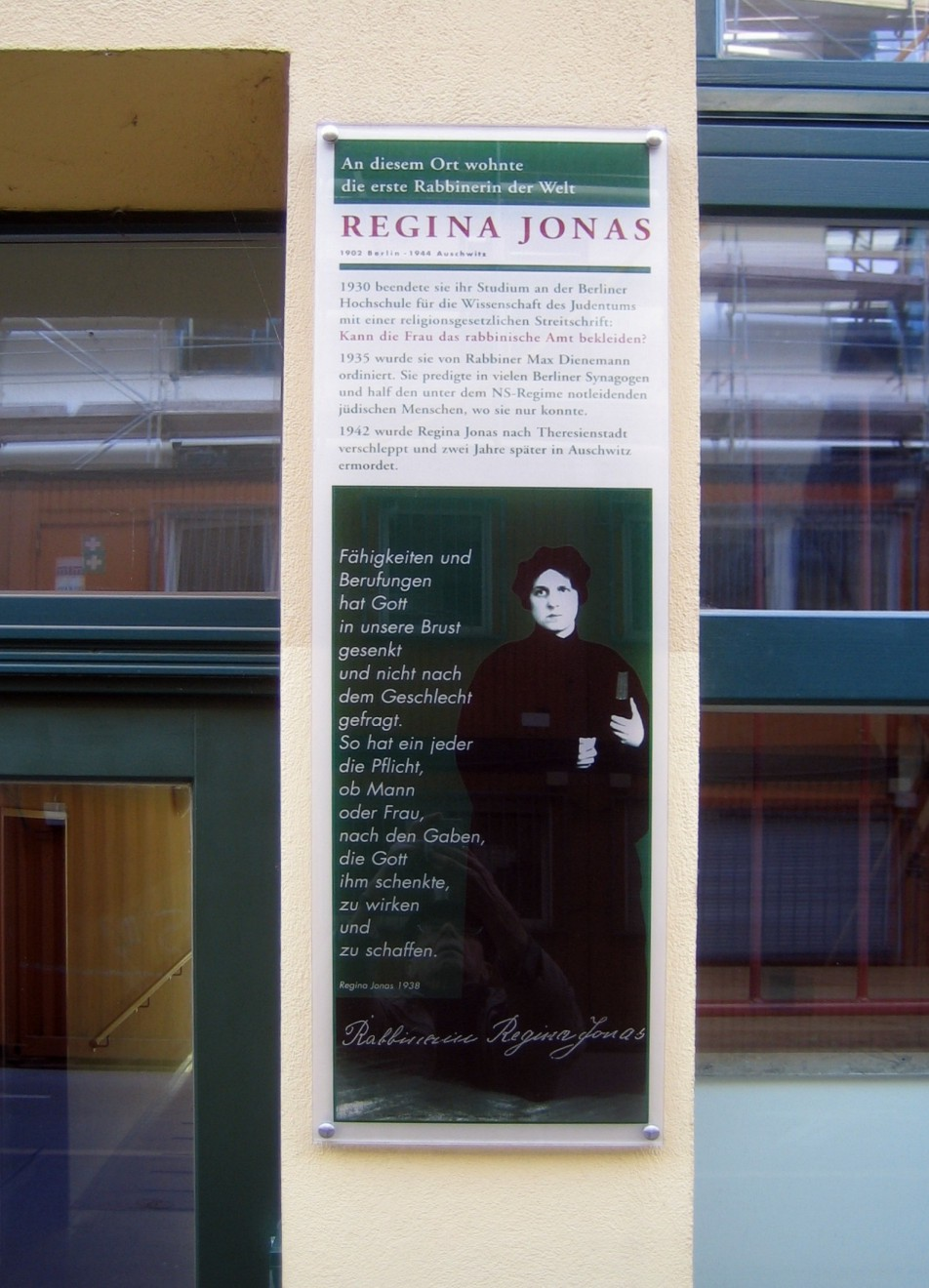 Memorial tablet for Regina Jonas, first female rabbi at all. Berlin, Krausnickstr. No. 6.